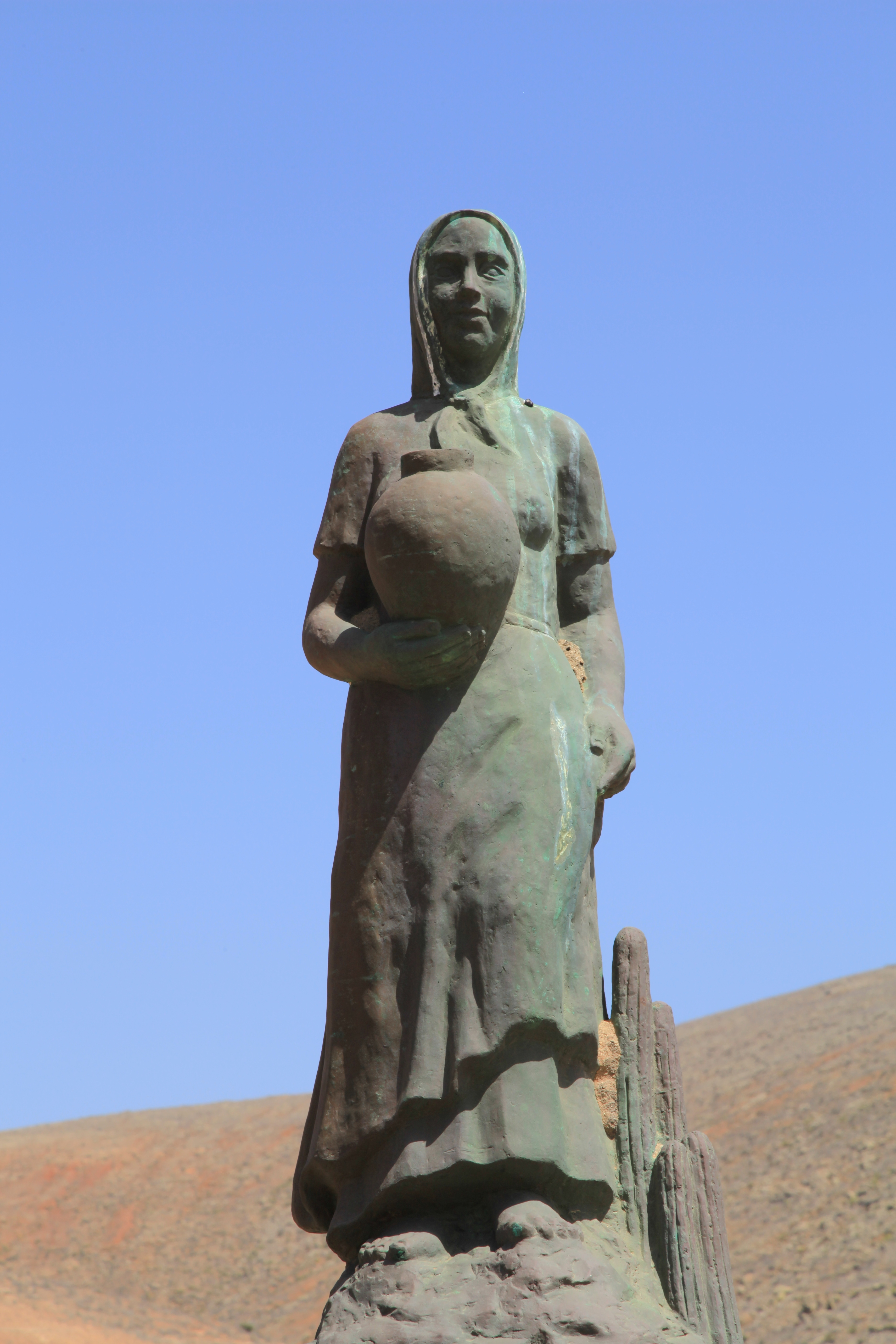 Junction of Calle San Diego De Alcalá (FV-30) and Calle General Linares in Betancuria, Fuerteventura, Canary Islands